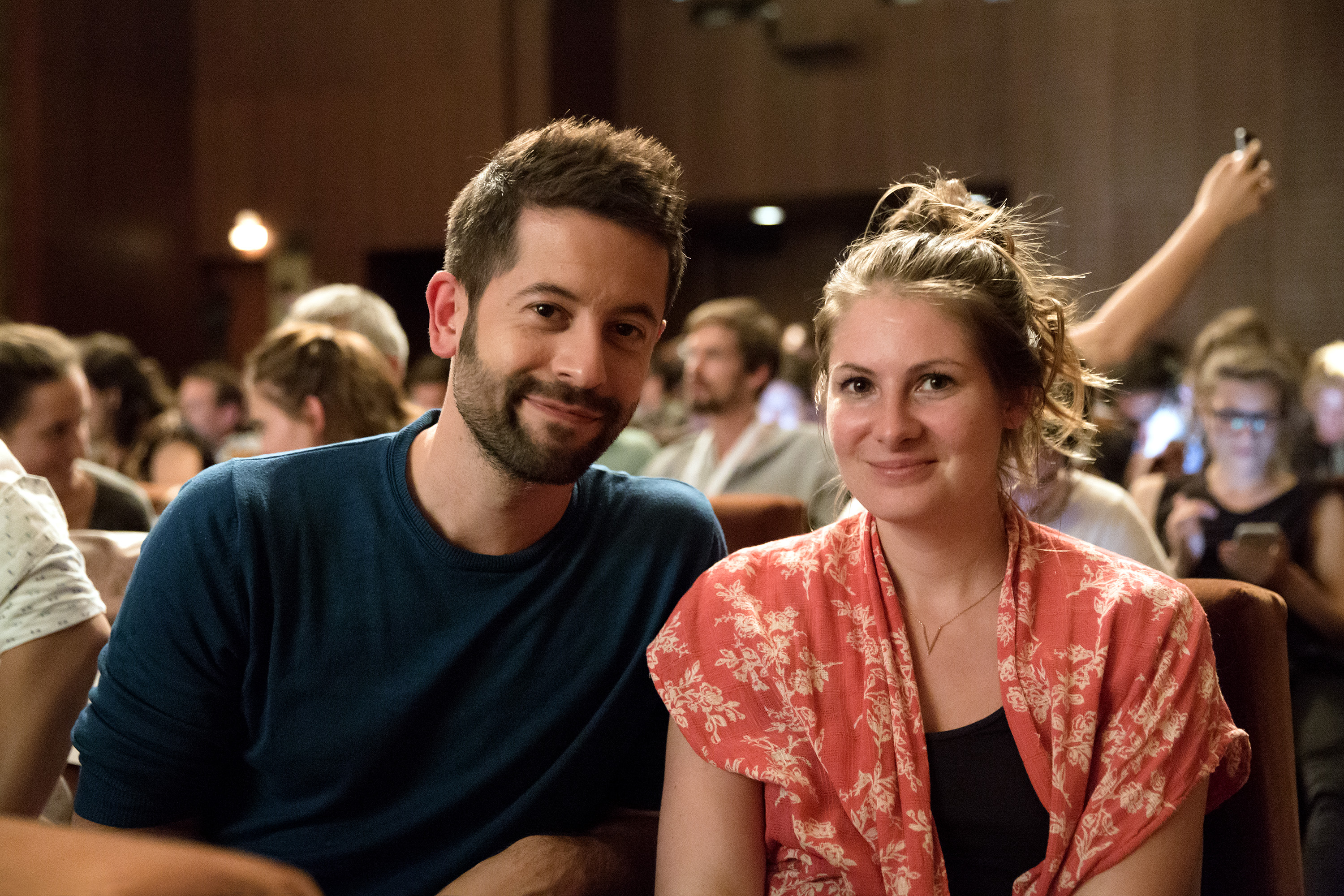 Anna Hawliczek and Georg Blume at the Night of the Light at the short film festival Vienna Independent Shorts (VIS) 2016 (Stadtkino at Künstlerhaus, Vienna, Austria).